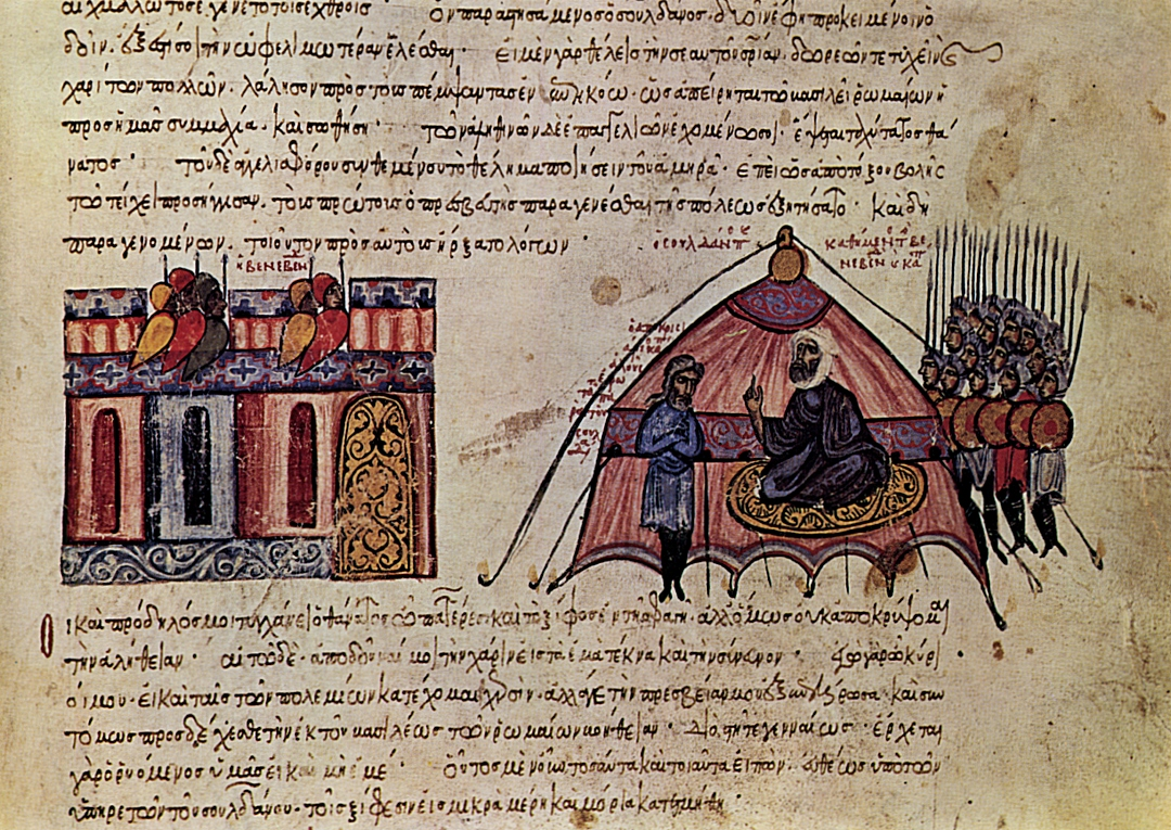 Skyllitzes Matritensis, fol. 97ra, detail. Miniature: Scene from the Arab siege of Benevento (in 871): The Arab Emir Soldanos (Mofareg ibn Salem) interrogates a Byzantine ambassador. References: Ioannis Scylitzae Synopsis Historiarum. Editio Princeps. Rec. Ioannes Thurn, p. 150, in: Corpus Fontium Historiae Byzantinae 5 Series Berolinensis, 1973 Tsamakda V.: The illustrated chronicle of Ioannes Skylitzes in Madrid, p.132 Grabar A., Manoussacas M.: L'illustration du manuscript de Skylitzes de Madrid, p. 61